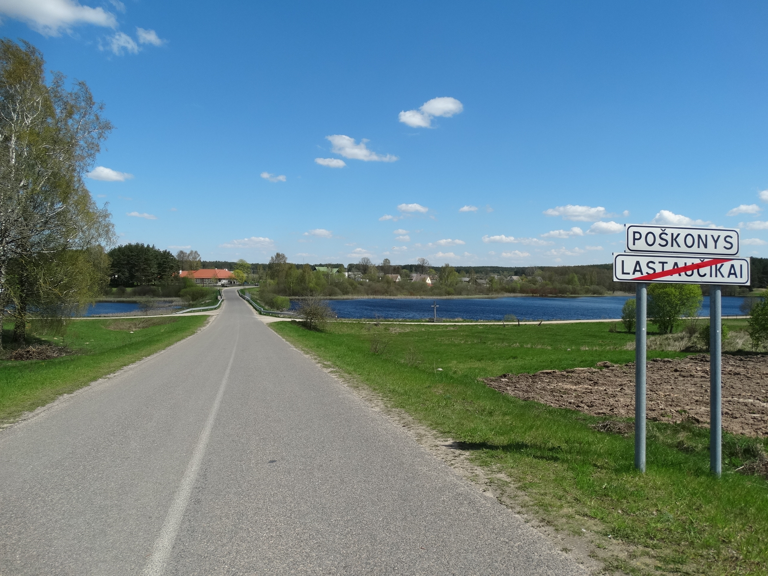 Poškonys, Šalčininkai District, Lithuania